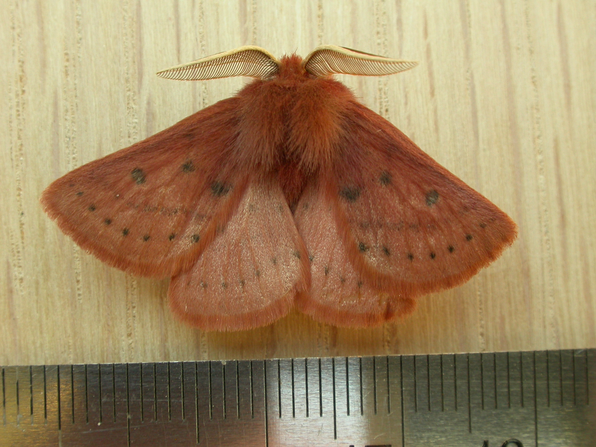 Anthela ferruginosa Walker, 1855, to MV light in Aranda, ACT, 28/29 March 2008